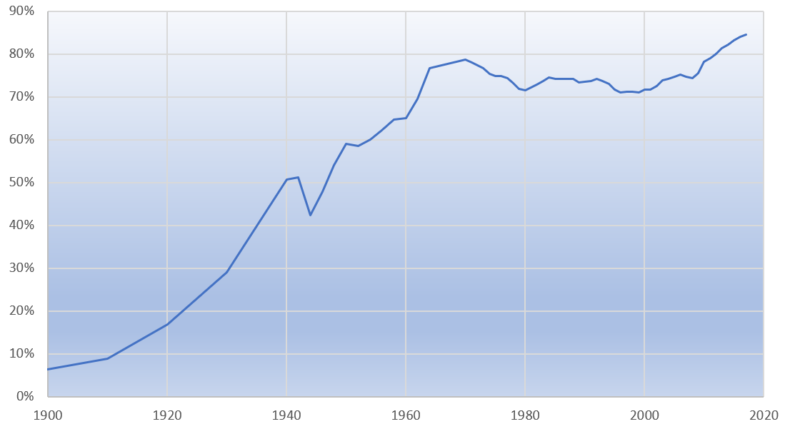 High School Graduation Rate in the United States 1900 thru 2017 Data Sources